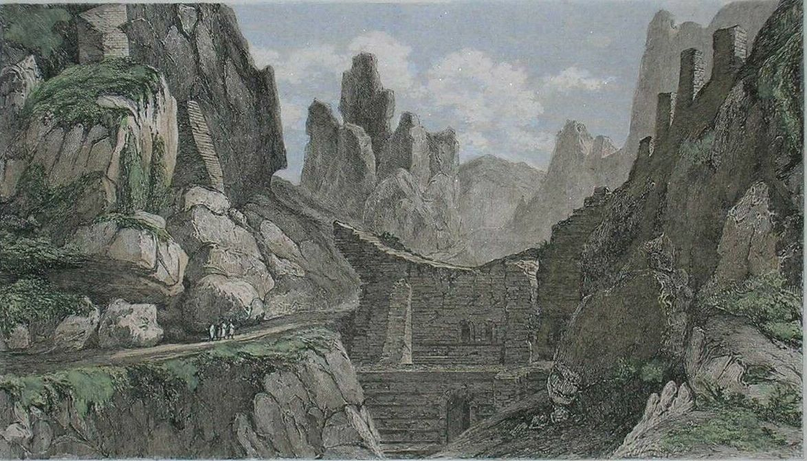 According to Rodney Searight: - 'Bt. in a lot at Christies, say abt. £10.' Formerly attributed to W.H. Bartlett, and subsequently to C. Hamilton Smith. see Searight Archive. A copy, with variations, of an engraving by M.[?] Picquenot after L.F. Cassas entitled Antioche, nommé par les Arabes Anthakyah - Vue de la Porte de Fer (Bab-el-Hhadyd) qui conduit à Alep (Hhaleb) par les montagnes, published in Voyage Pittoresque de la Syrie, de la Phoenicie, de la Palestine et de la Basse Egypte, 1799, Vol.I, No.9.